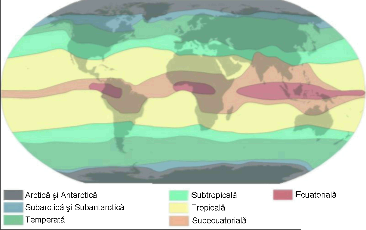 Alisov's classification